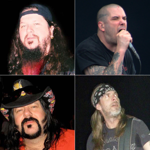 Dimebag Darrell (cropped picture). Phil Anselmo of Superjoint Ritual at Ozzfest. Jones Beach, NY. July 7, 2004. Rex Brown in Sala Joy Eslava, Madrid.